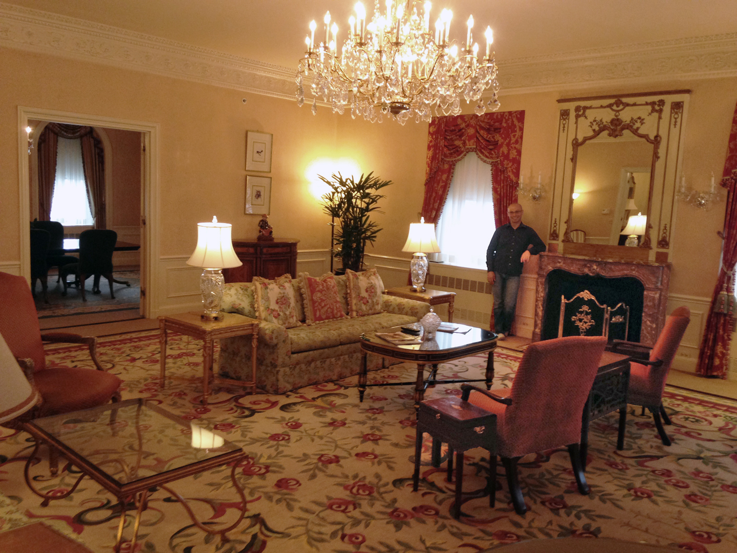 Presidential Style Suite 30A - May 2014